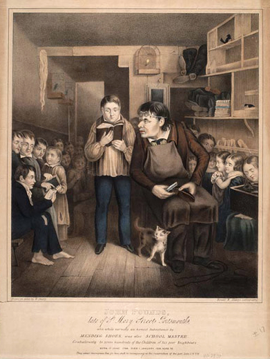 John Pounds, late of St. Mary Street, Portsmouth: who, while earning an honest subsistence by mending shoes, was also school master, gratuitously to some hundreds of the children of his poor neighbours. : Born 17 June 1766. Died 1 January 1839, aged 72. Published by Bouvé & Sharp, 221 Washington St., Boston, ca.1843-1845